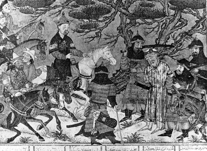 Miniature from Shahnameh. Parthian king Arthaban and Sasanian king Ardashir.